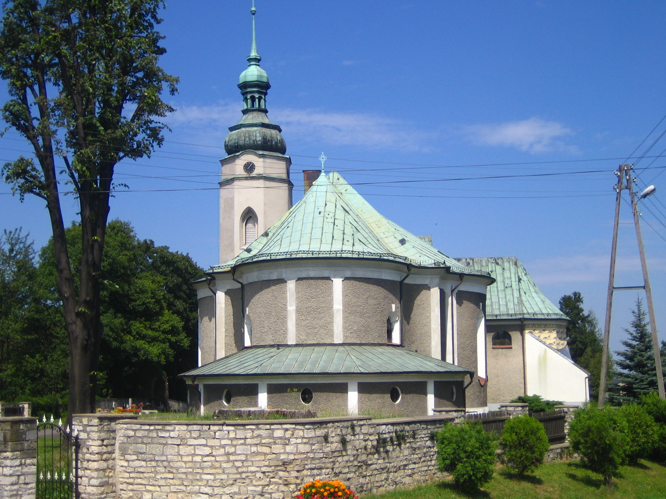 Church in Wysoka village in South Poland (Near Saint Anna mountain)